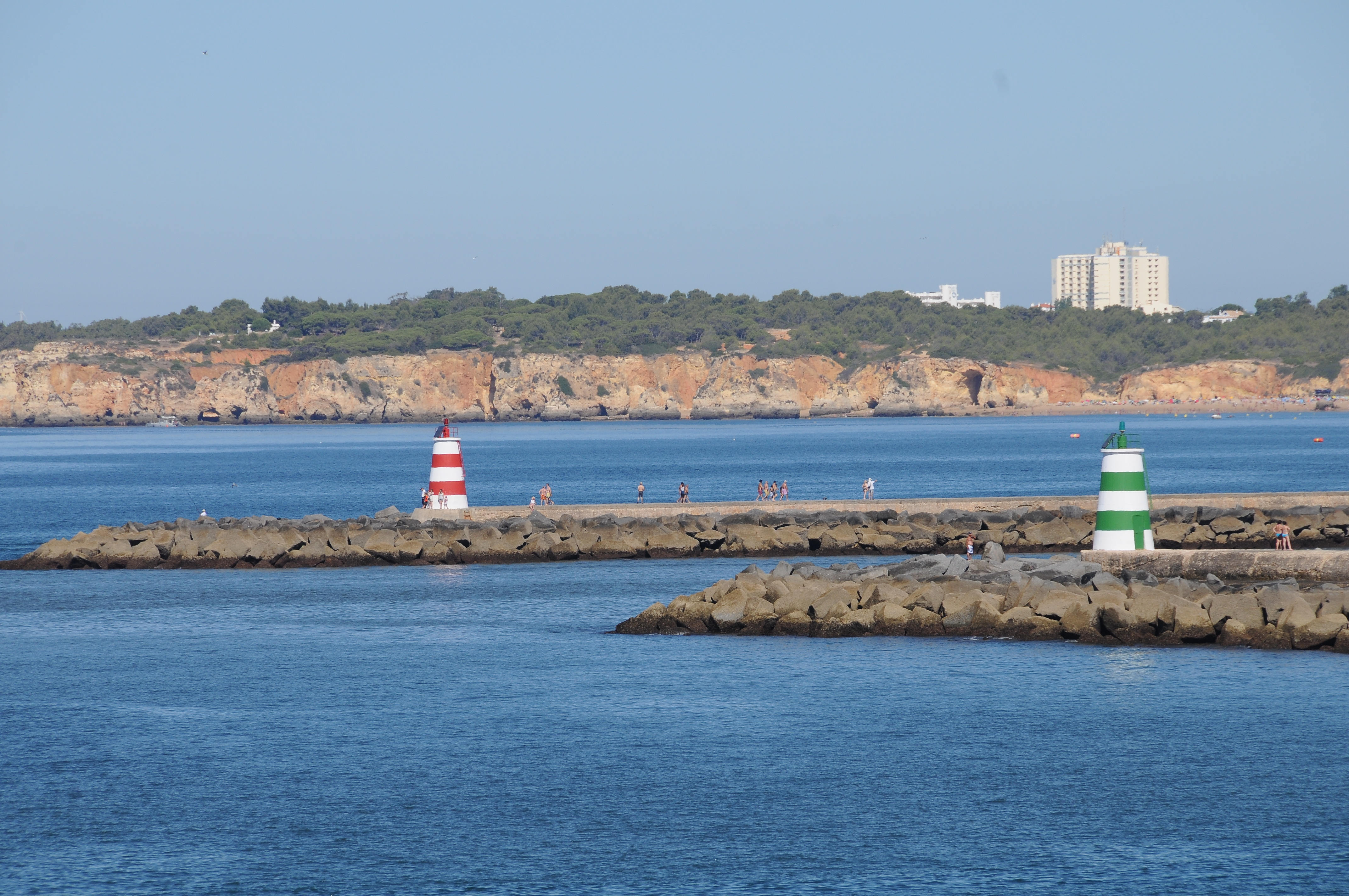 Arade River in Algarve, Portugal.